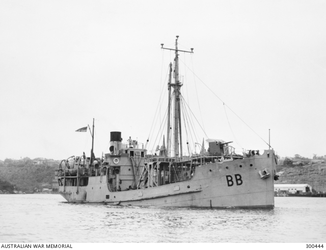 Starboard bow view of HMAS Bombo (stores carrier and minesweeper, converted from SS Bombo), in Sydney during WW2. From AWM collection photo no. 300444. Date estimated.